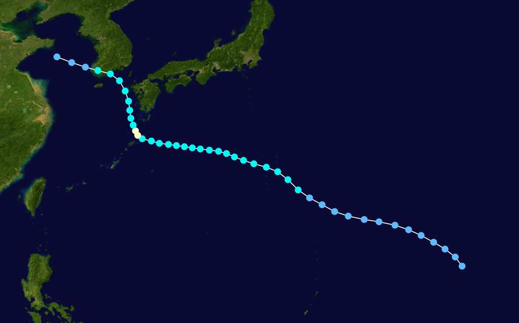 Typhoon Gladys 1991 track. Uses the color scheme from the Saffir-Simpson Hurricane Scale.